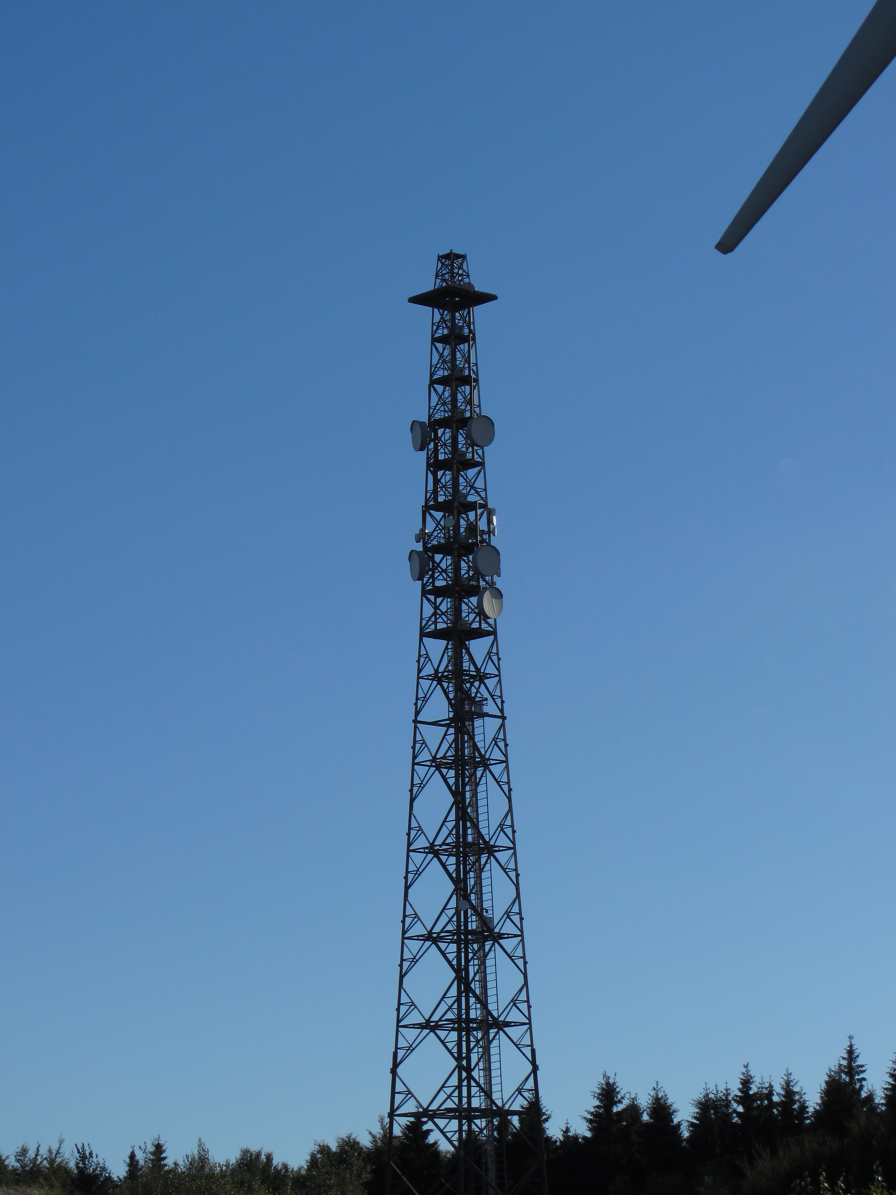 Kandrich antenna mast